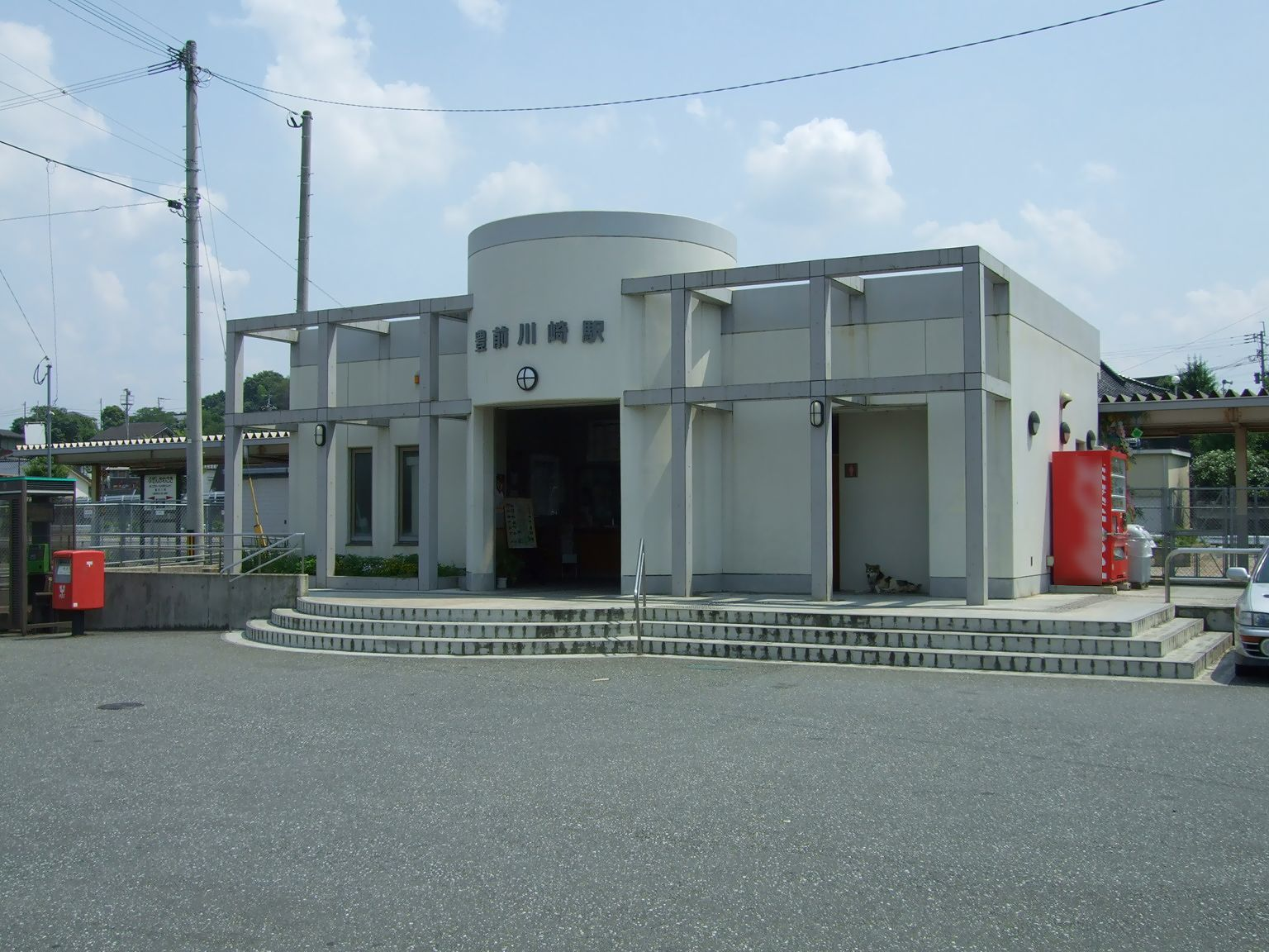 Buzen-Kawasaki Station, Hitahikosan Line, Kyushu Railway Company.